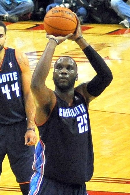 Al Jefferson of the Charlotte Bobcats shoots a free throw, as teammate Jeff Taylor watches, during an NBA basketball game against the Houston Rockets at the Toyota Center in Houston, Texas, October, 30, 2013.